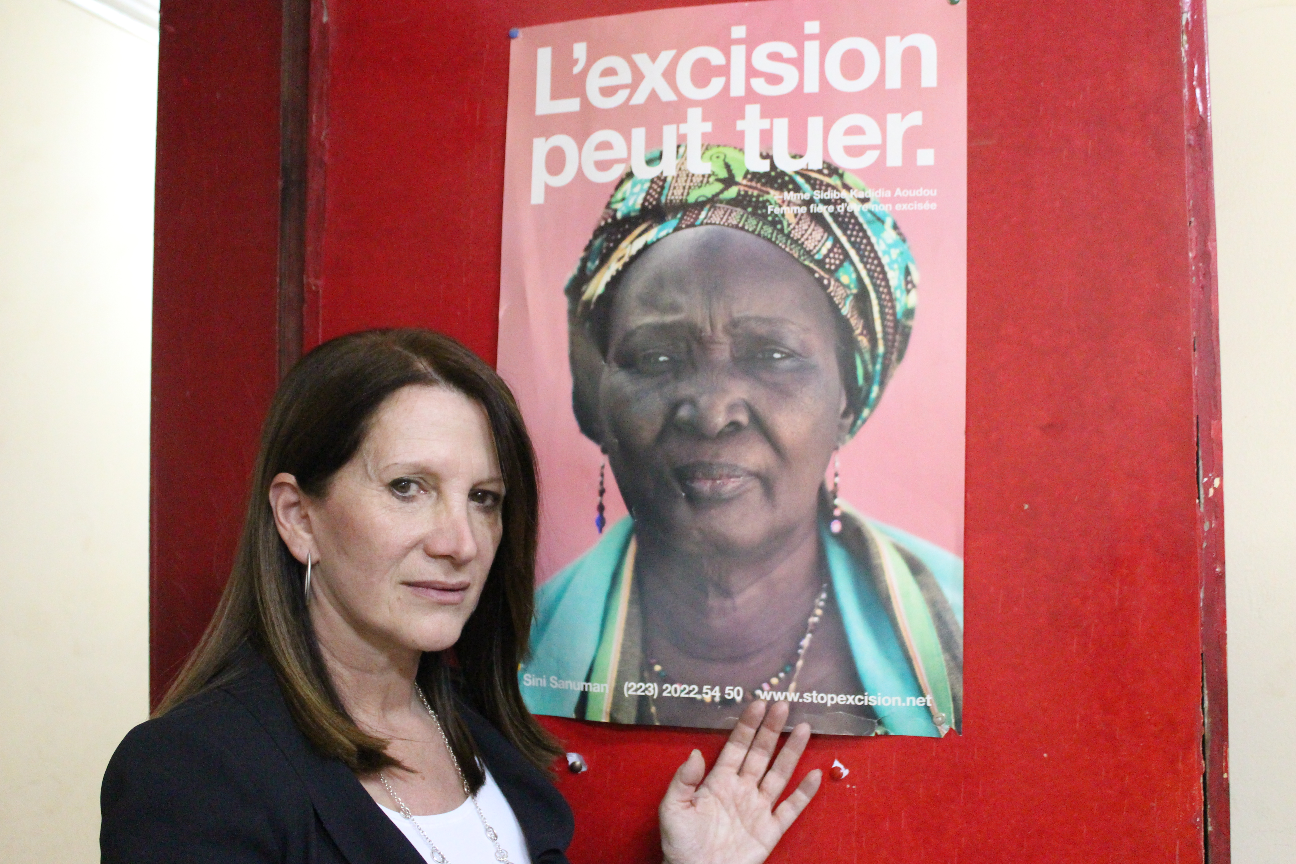 International Development Minister Lynne Featherstone next to an anti-FGM/C poster of Kadidia Sidibe, the founder of the Association Malienne pour le Suivi et l'Orientation des Pratiques Traditionnelles (AMSOPT). The poster states 'L'excision peut tuer' which means 'FGM or excision can kill.' The First Lady of Burkina Faso is the Founder and President of the SUKA Foundation. The Suka clinic performs small procedures to open scars caused by FGM/C - this is often called a reversal or de-infibulation. While the operation is often called a reversal, this can be confusing because it does not mean that any tissue that has been removed can be replaced. However, it enables survivors to give birth safely. Find out more about our work: Break the silence. Take a stand. Join the movement. Together we can #EndFGM. Picture: Lindsay Mgbor/DFID.